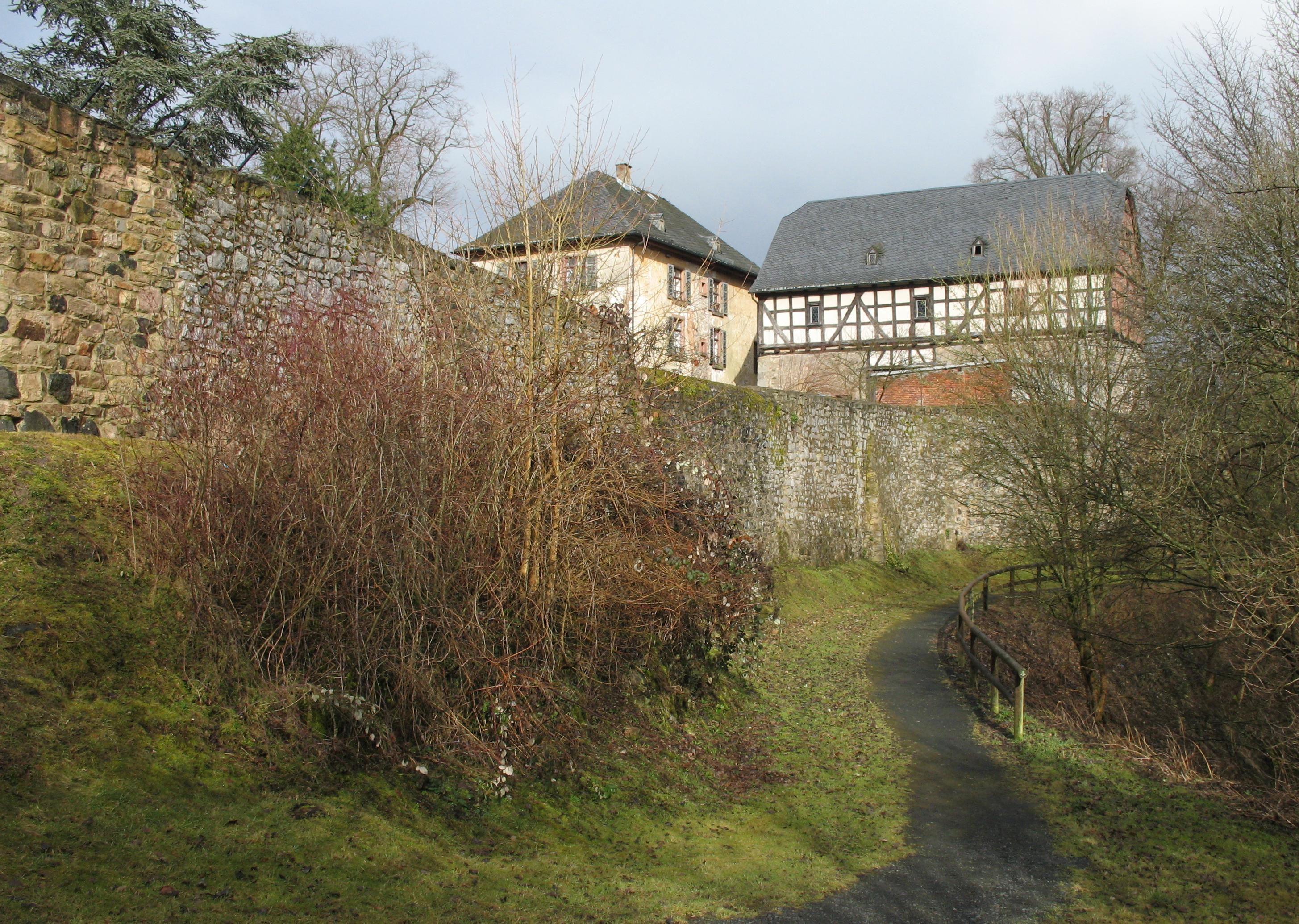 Castle in Homberg in Hesse, Germany